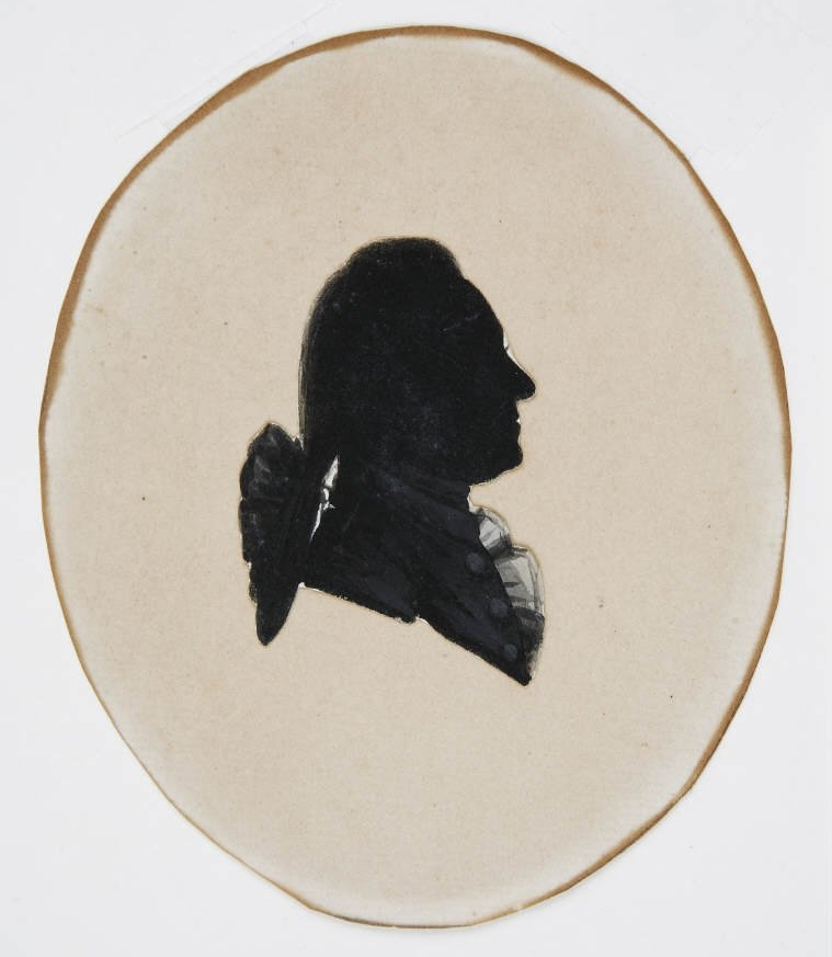 Silhouette portrait of Mr. Abraham van Neck (1734-1789), Mayor of the city of The Hague, the Netherlands